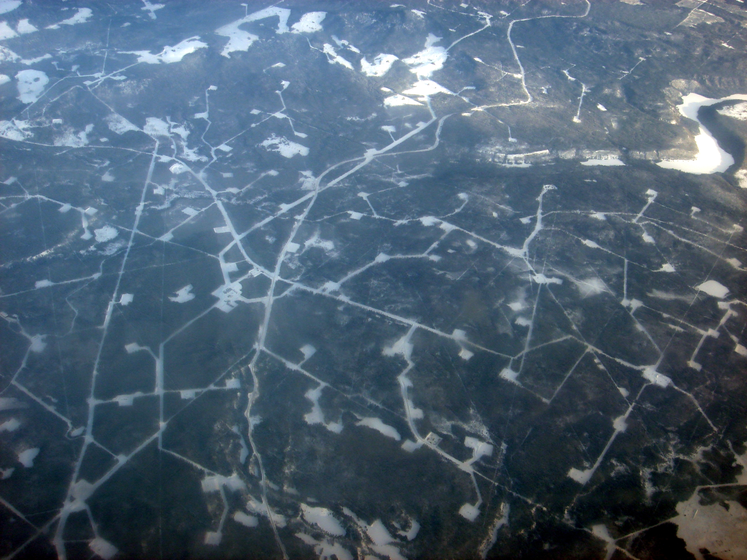 Aerial View of oil leases in the Pembina oil field in winter